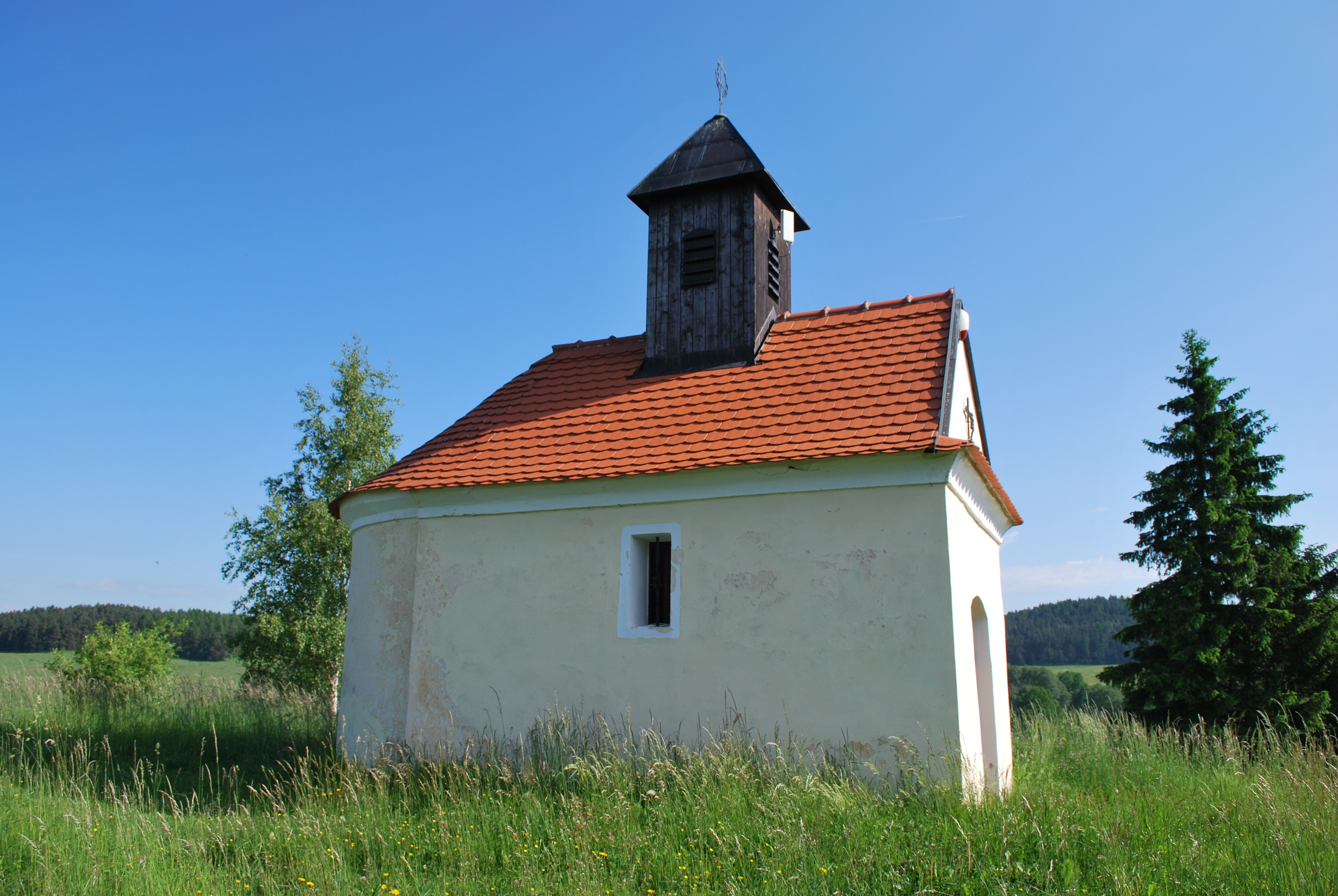 Chapel in Frymburk village in Klatovy District, Czech republic This photograph was taken within the scope of the 'Czech Municipalities Photographs' grant.